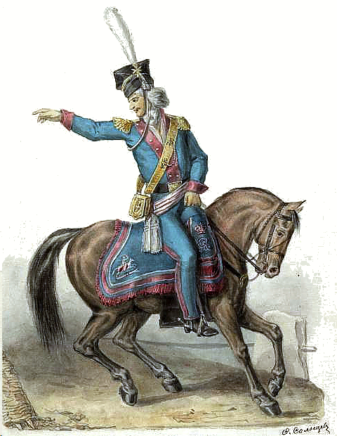 Rittmeister of the Polish National Cavalry in 1792